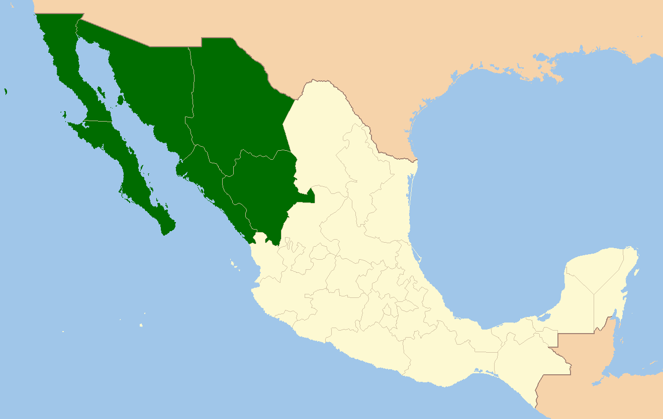 Northwest Mexico